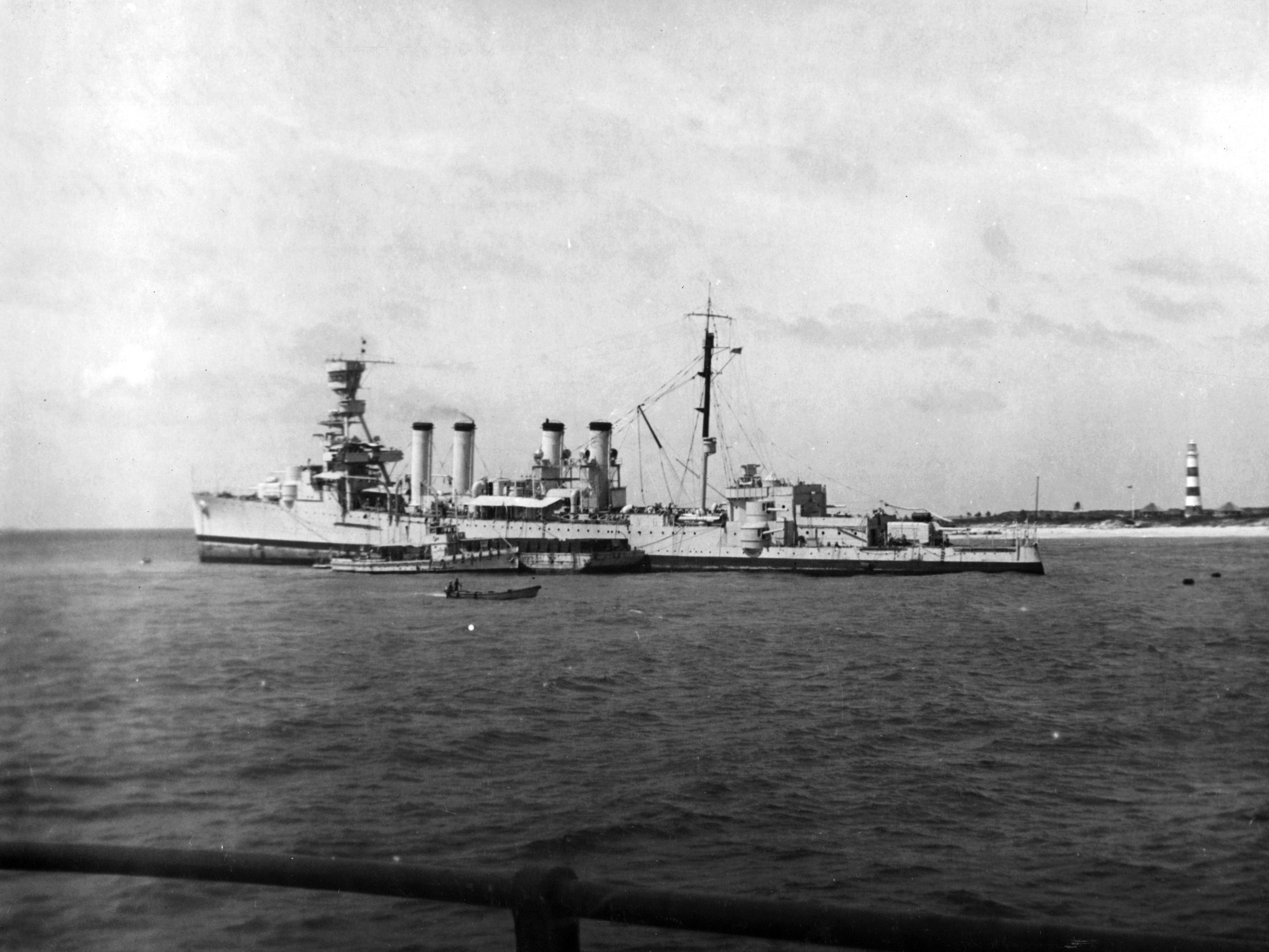 The U.S. Navy light cruiser USS Omaha (CL-4) aground in the Bahamas, 18 July 1937. Note the Castle Island lighthouse at right and the vessels alongside Omaha.